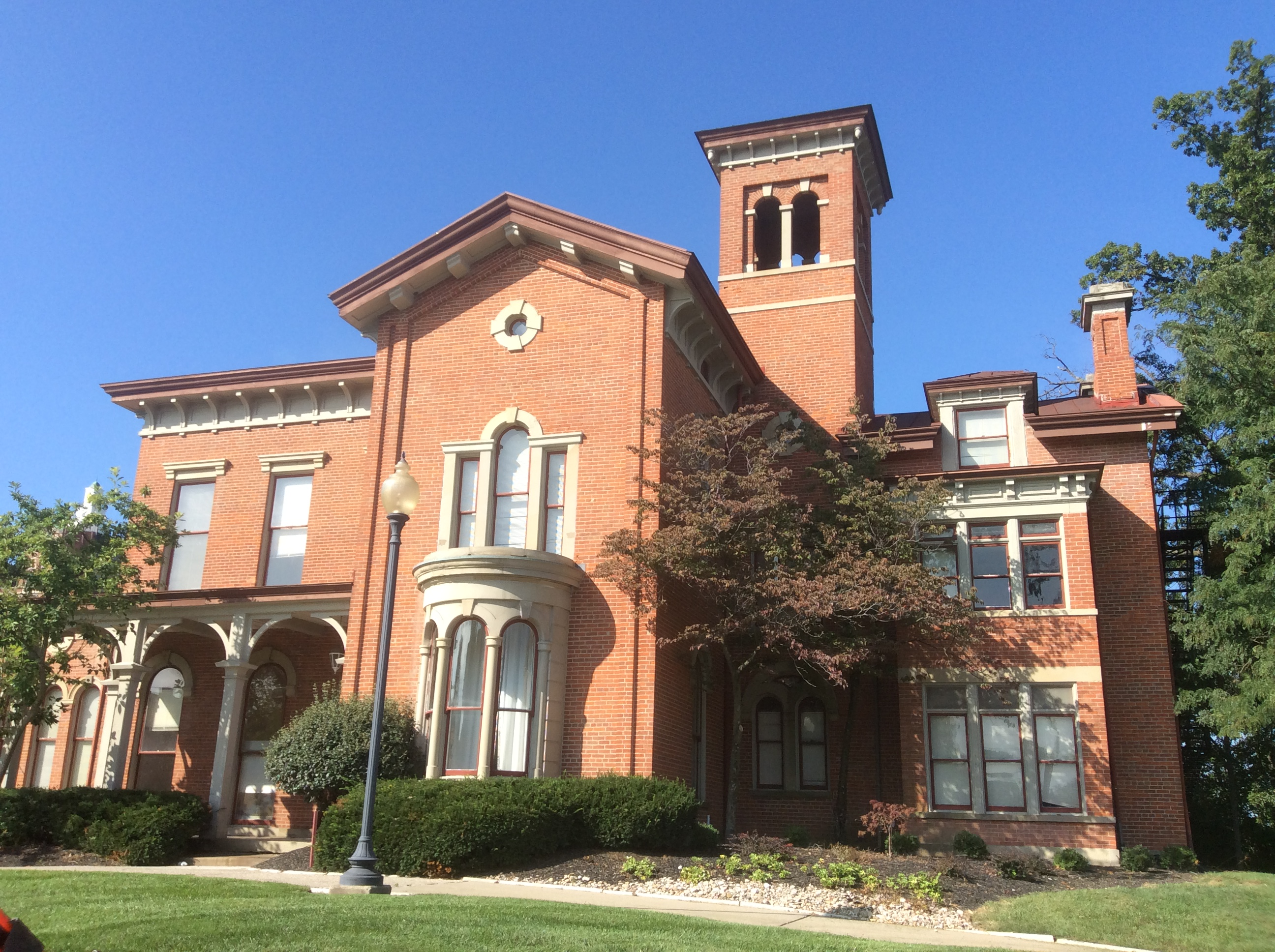 Sunnyside was built around 1850 by Jethro Mitchell. William Howard Doane bought the residence in 1879. The house is locate at 2223 Mt. Auburn Avenue in the Mt. Auburn neighborhood of Cincinnati, Ohio.